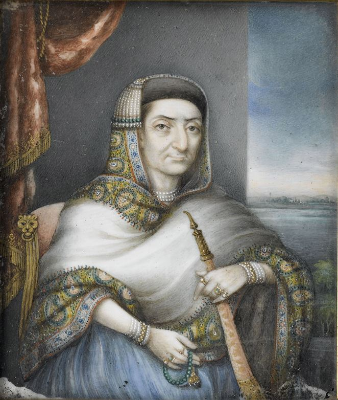 Provenance: India ; Depicted person: Begum Samru